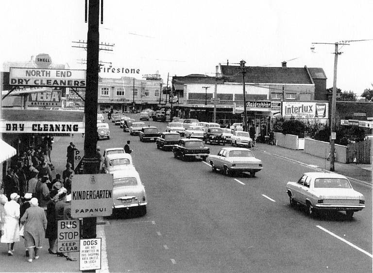 Convoy. Looking towards Papanui Junction roundabout with vehicles on parade including several (at least 5) Police Cars. circa 1967